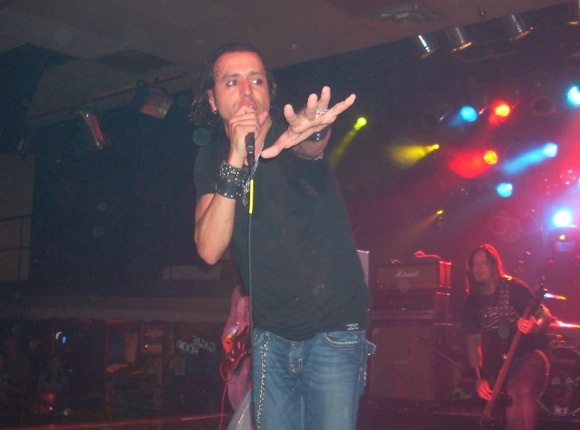 Hugo Ferreira, lead vocalist for Tantric, performing at Piere's Entertainment Center in Fort Wayne, Indiana on September 11, 2009.